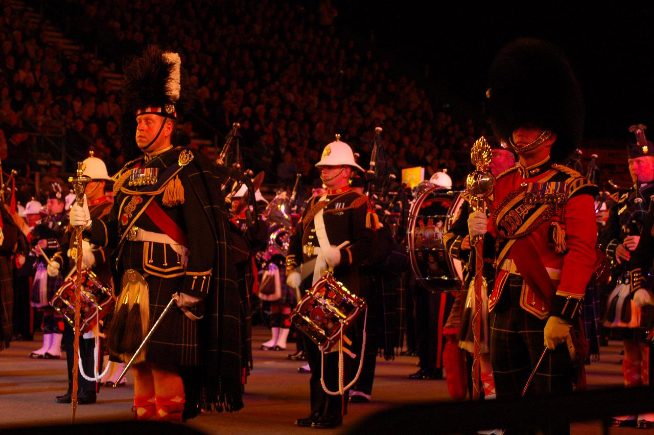 Massed Pipe and Drums at Military Tattoo